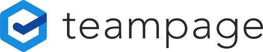 Traction Software Inc product marketing logo per